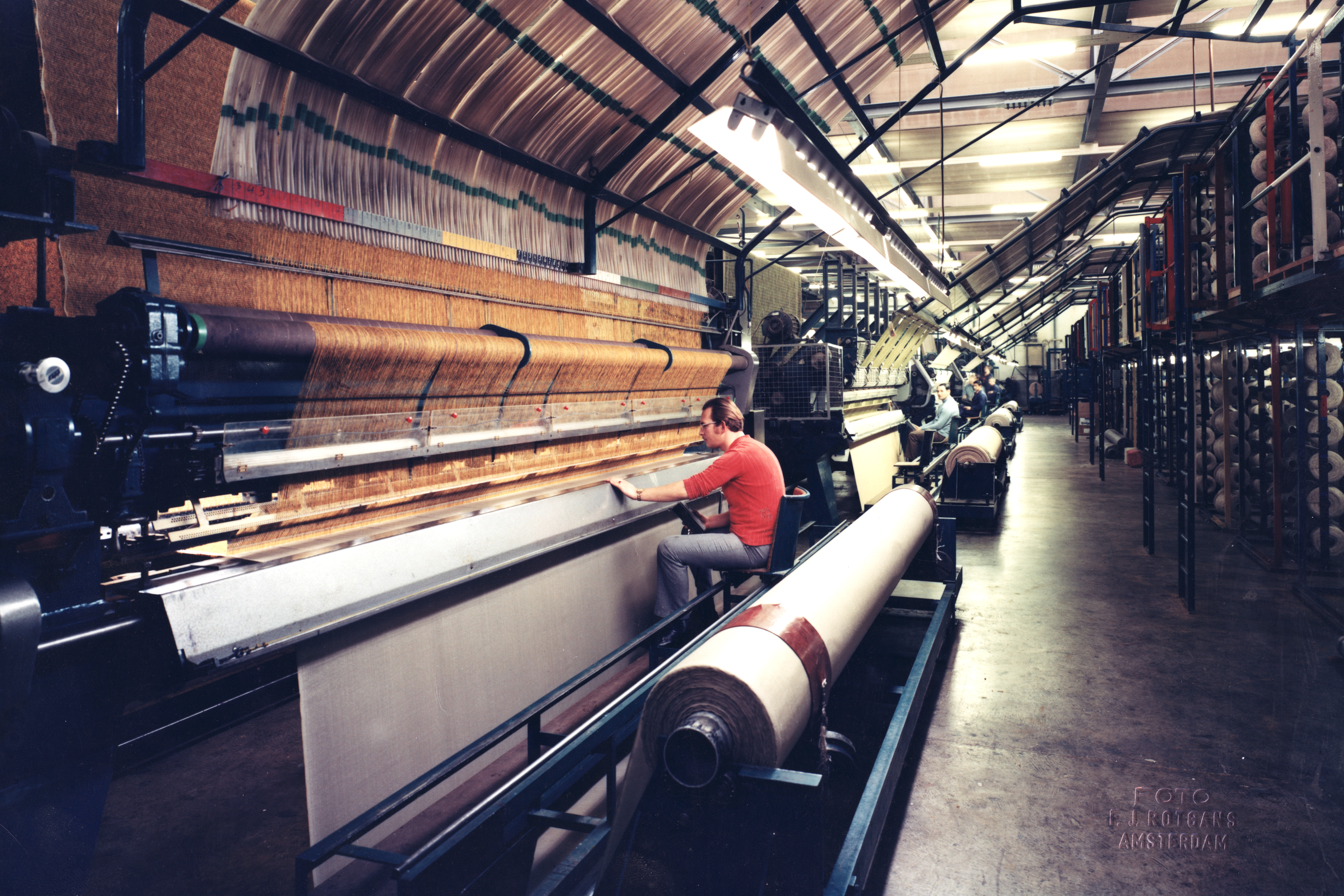 Four Tufting carpet lines in Soest maart 1977